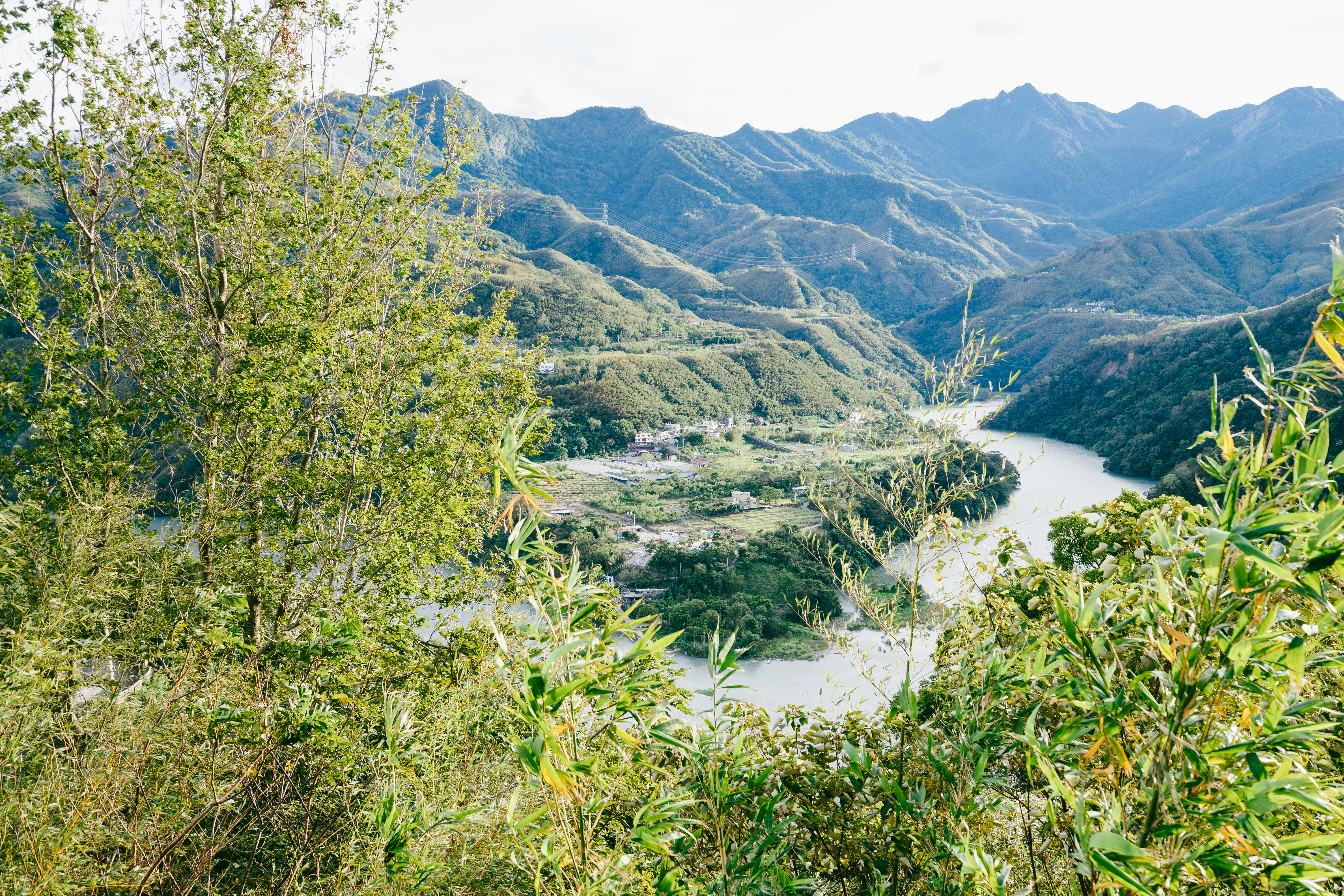 Sunshine over Xikou Terrace.